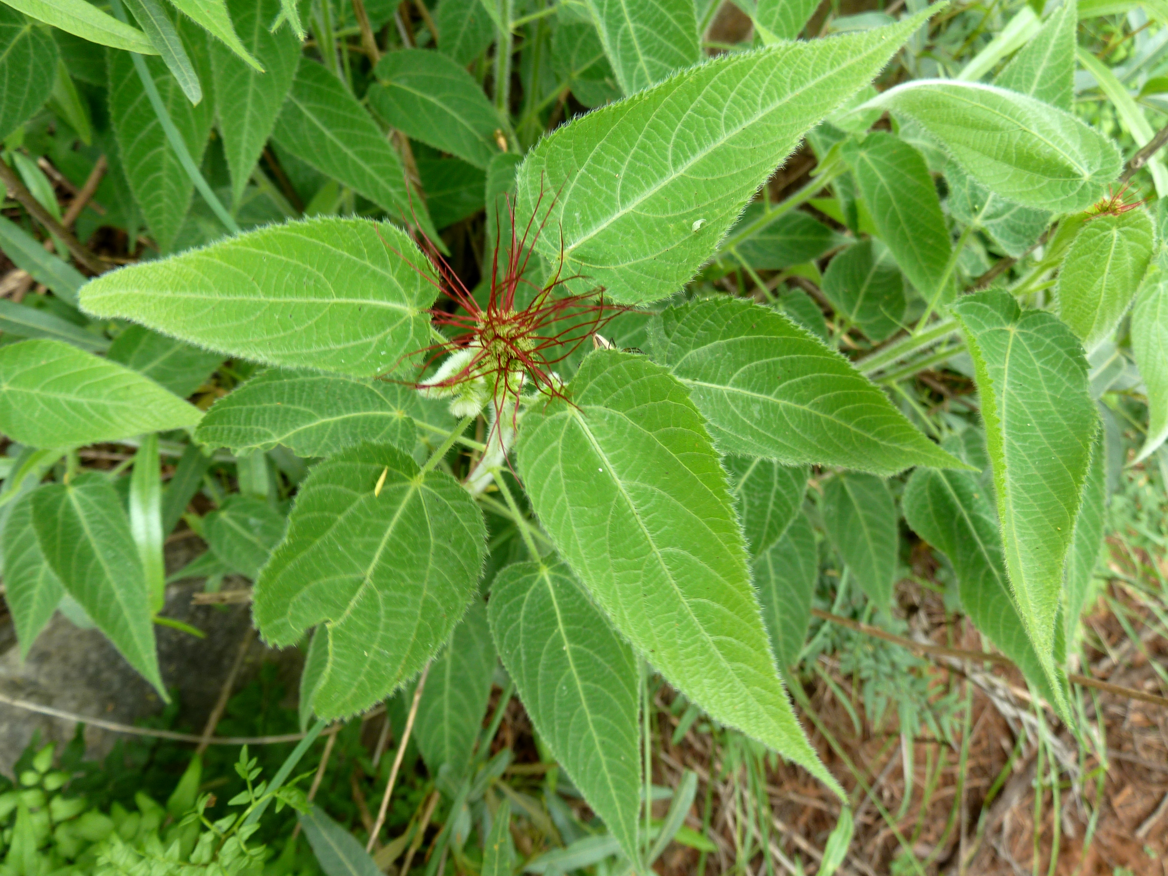 Acalypha brachiata at Skeerpoort on the southern slope of the Magaliesberg, South Africa